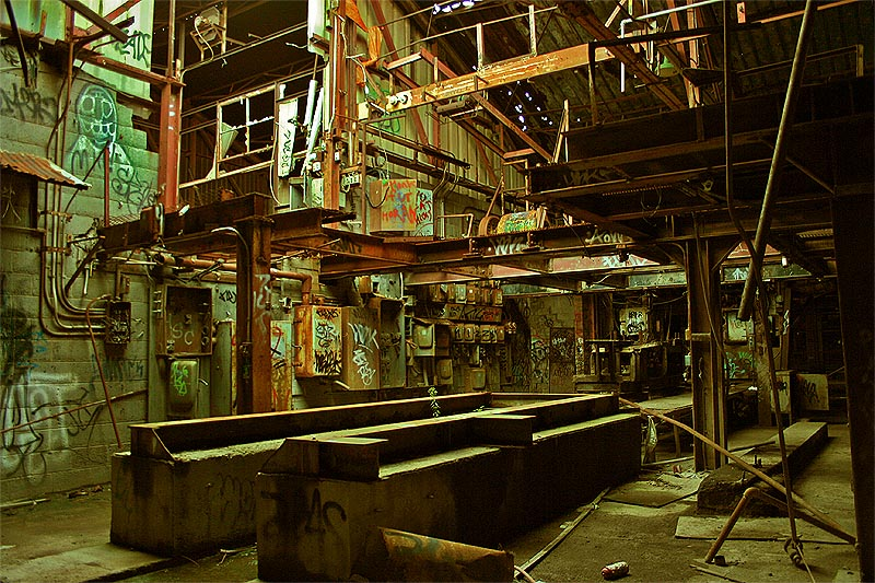 Picture taken by Shervin Mandgaryan, S-Man's Toronto PhotoBlog